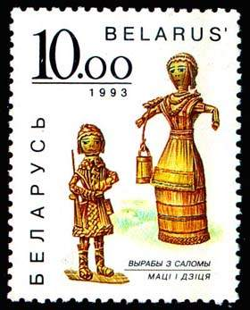 Stamp of Belarus